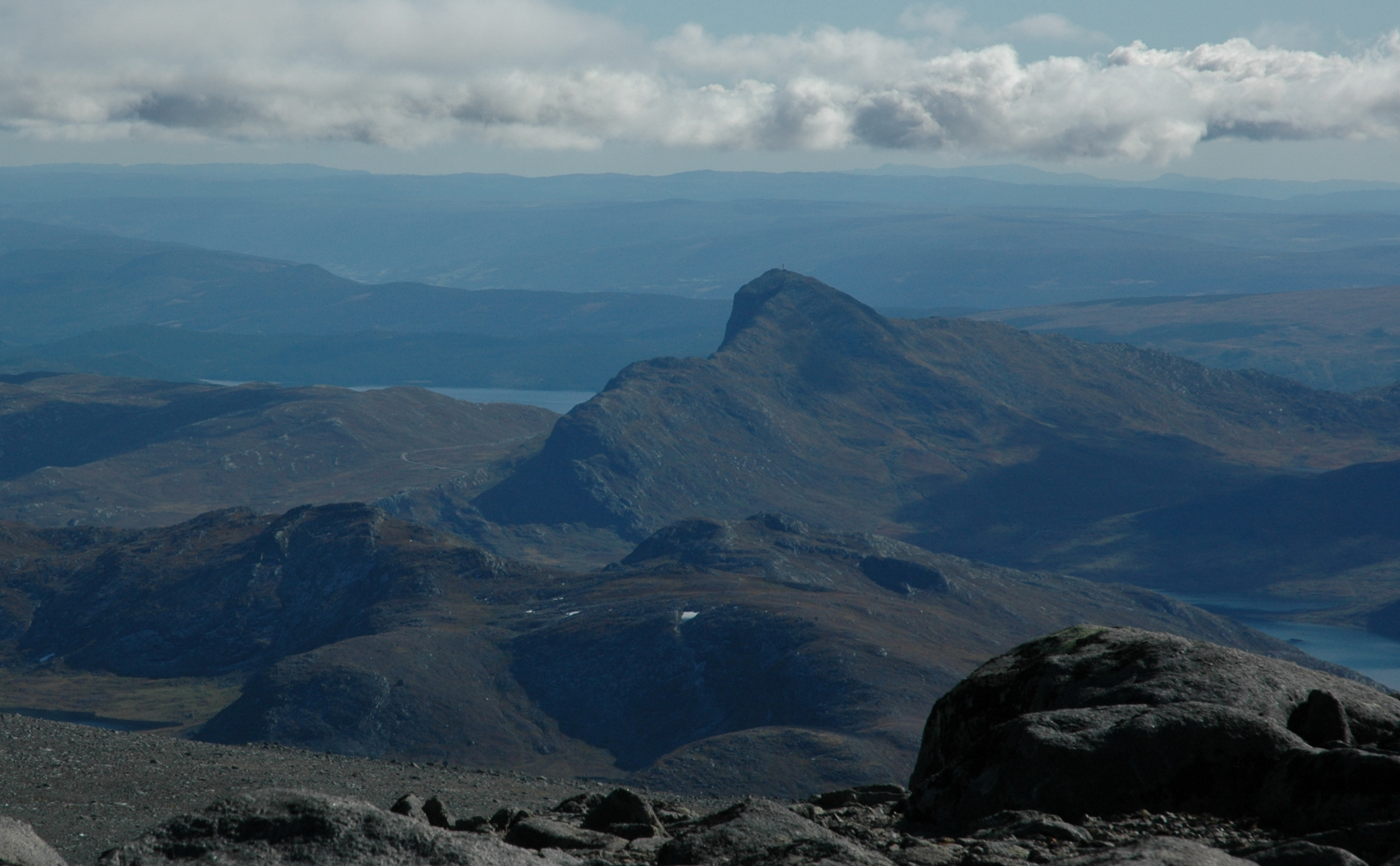 Bitihorn, Norway, at 1607 metres above sea level is the central peak in the picture. The picture was taken from Rasletind at 2140 metres. The wiev is southwards.